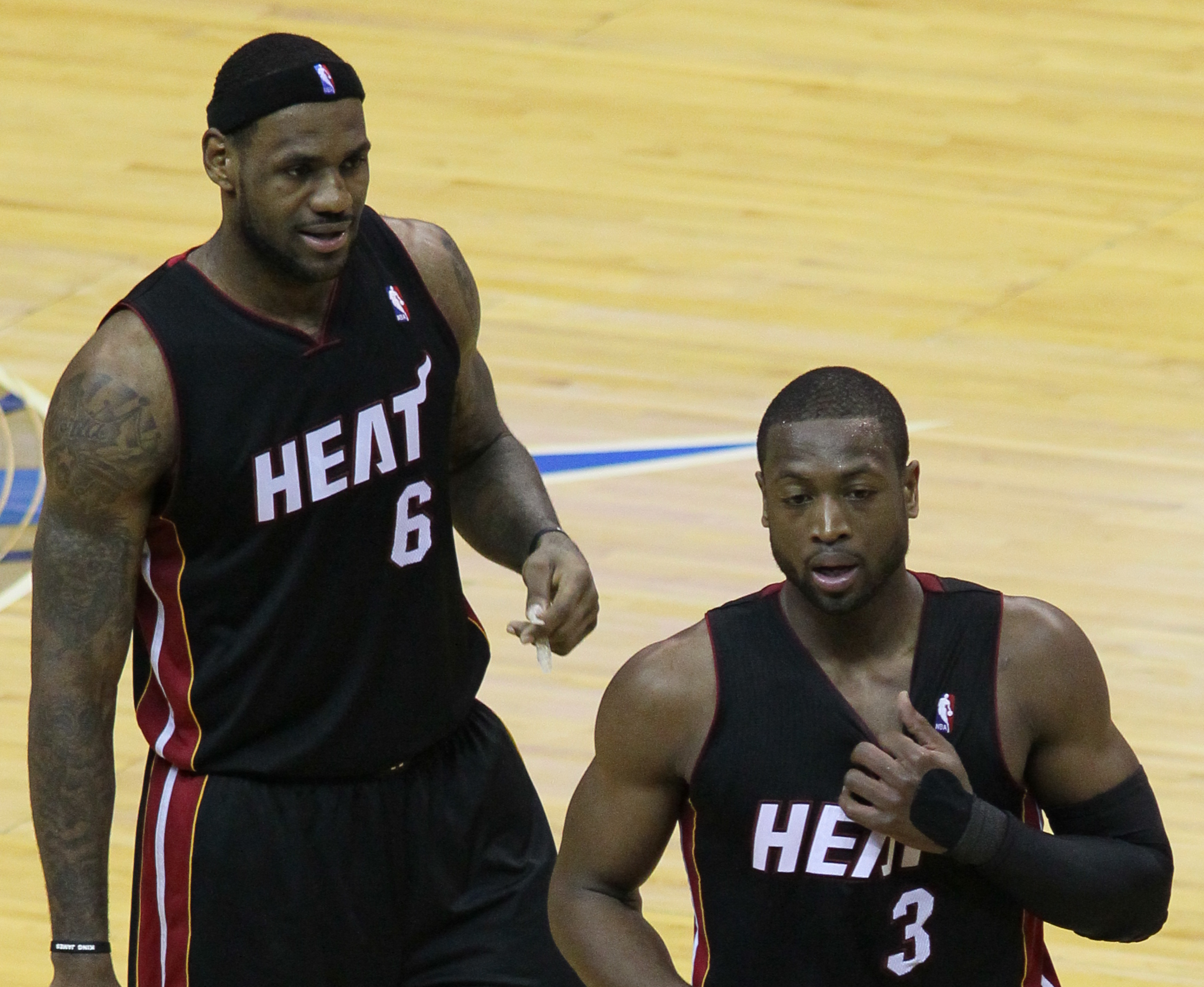 Washington Wizards v/s Miami Heat December 18, 2010